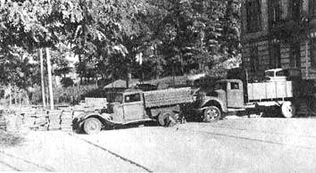 Warsaw Uprising: Barricade on Książęca street at Czerniaków district.